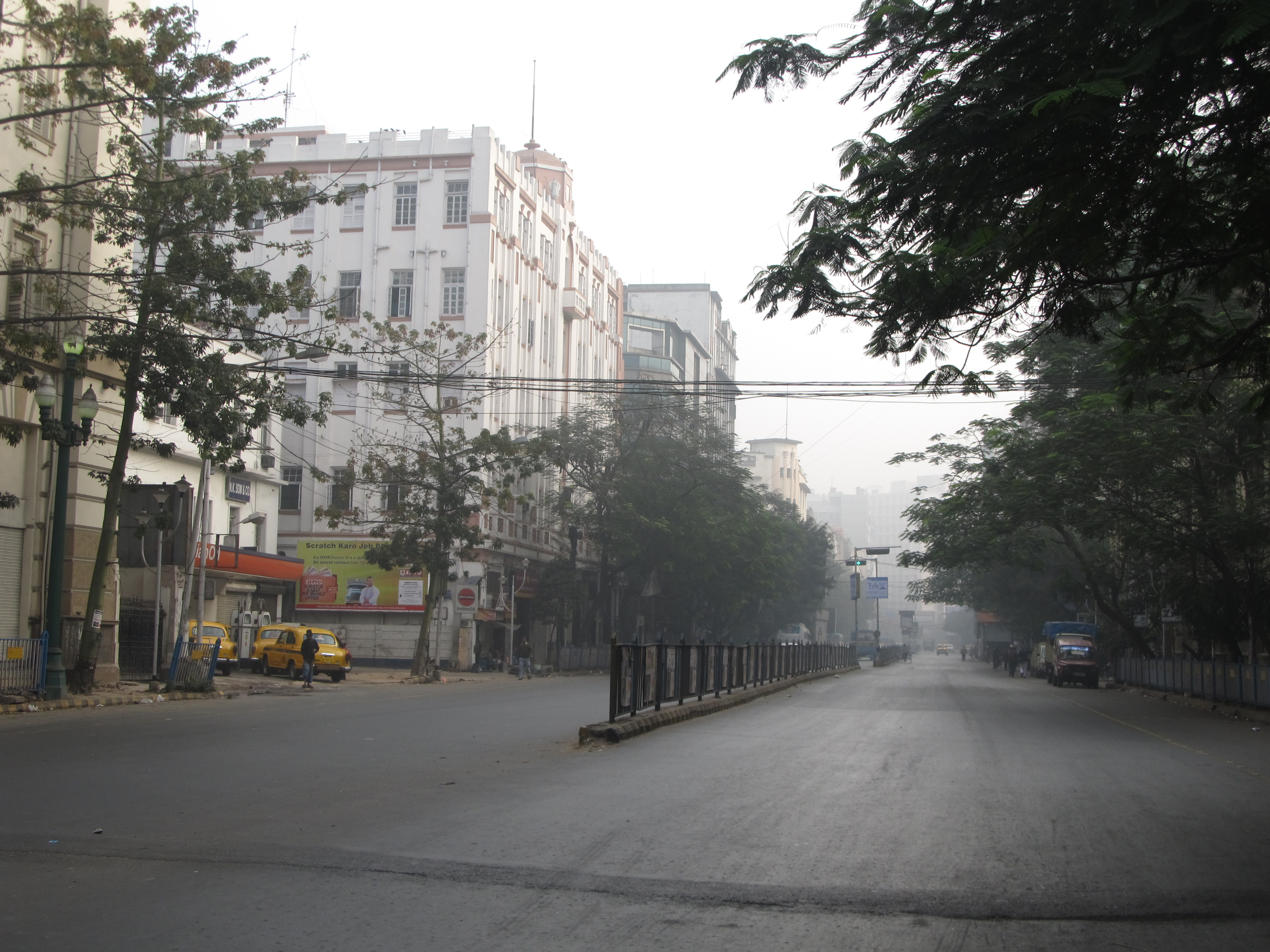 Kolkata